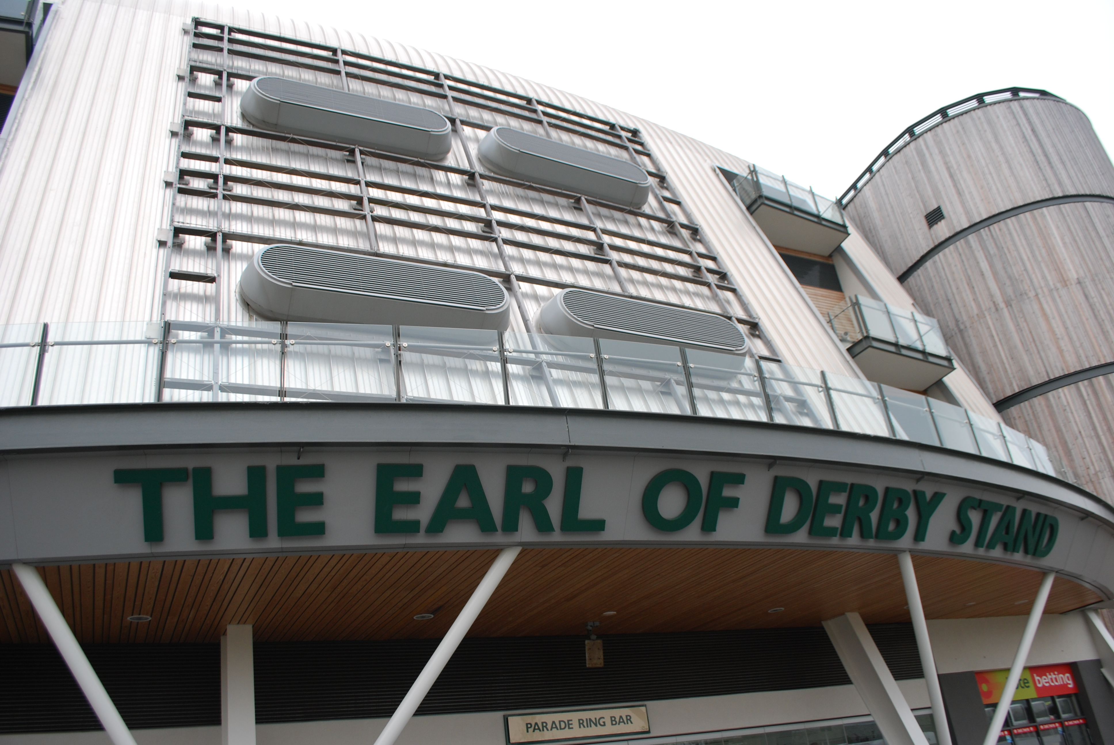 Earl of Derby Stand and Aintree Racecourse